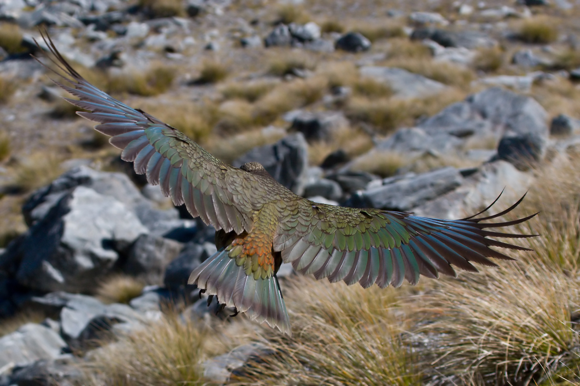 Nestor notabilis, A Kea flying in its natural environment on "The Remarkables" near Queenstown, New Zealand.